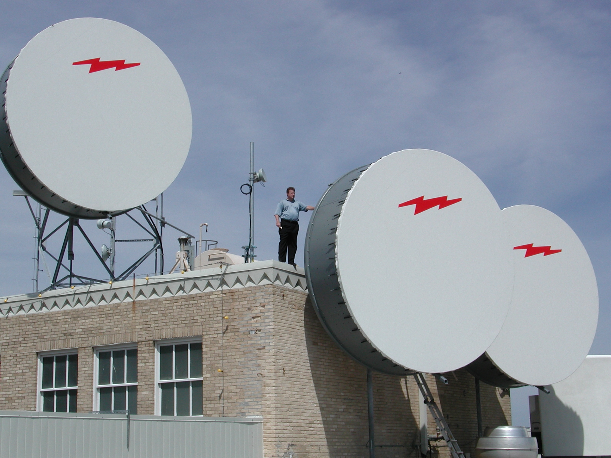 Three 155 Mbit/s dishes on top of the Oil & Gas Commerce Building, Fort Worth Tx Picture by Jimmy Chiles, circa 2001